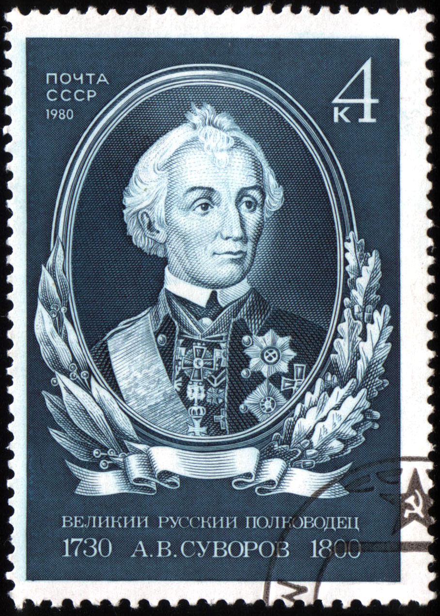 USSR stamp, A. V. Suvorov, 1980, 4 k.